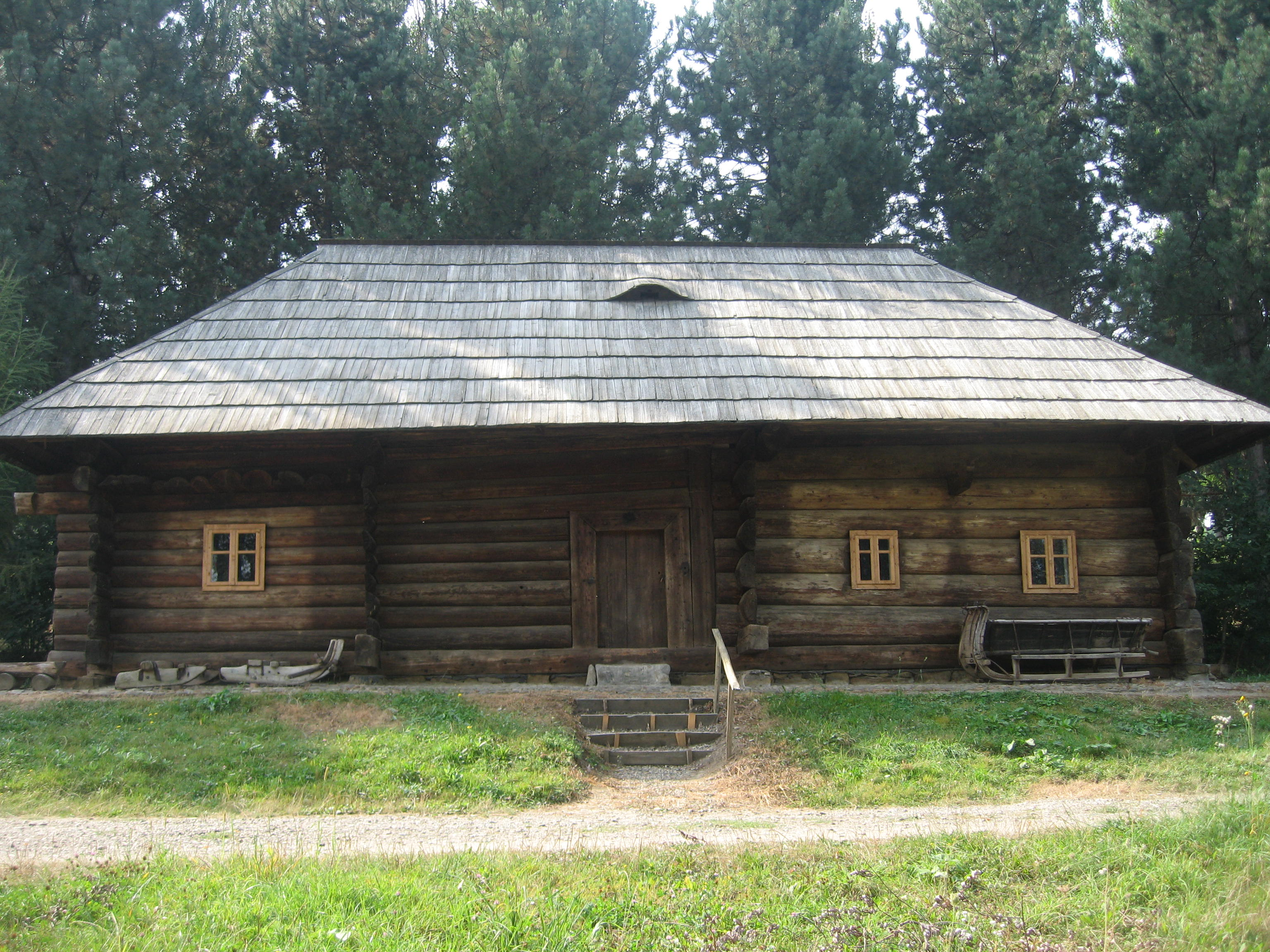 Bukovina Village Museum - The Ostra House, Humor ethnographic area.